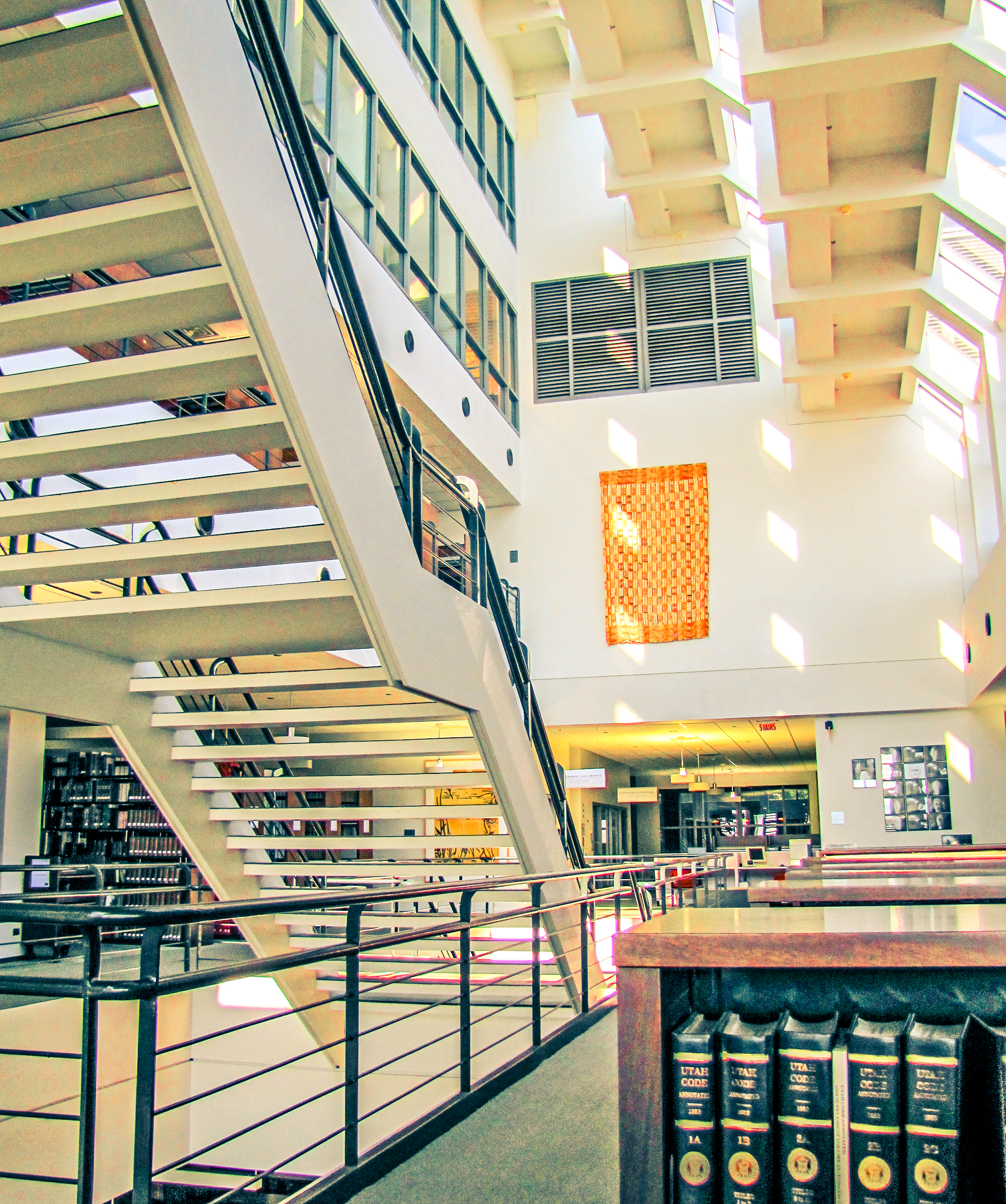 View of the staircase in the Northwestern Law Pritzker Library.